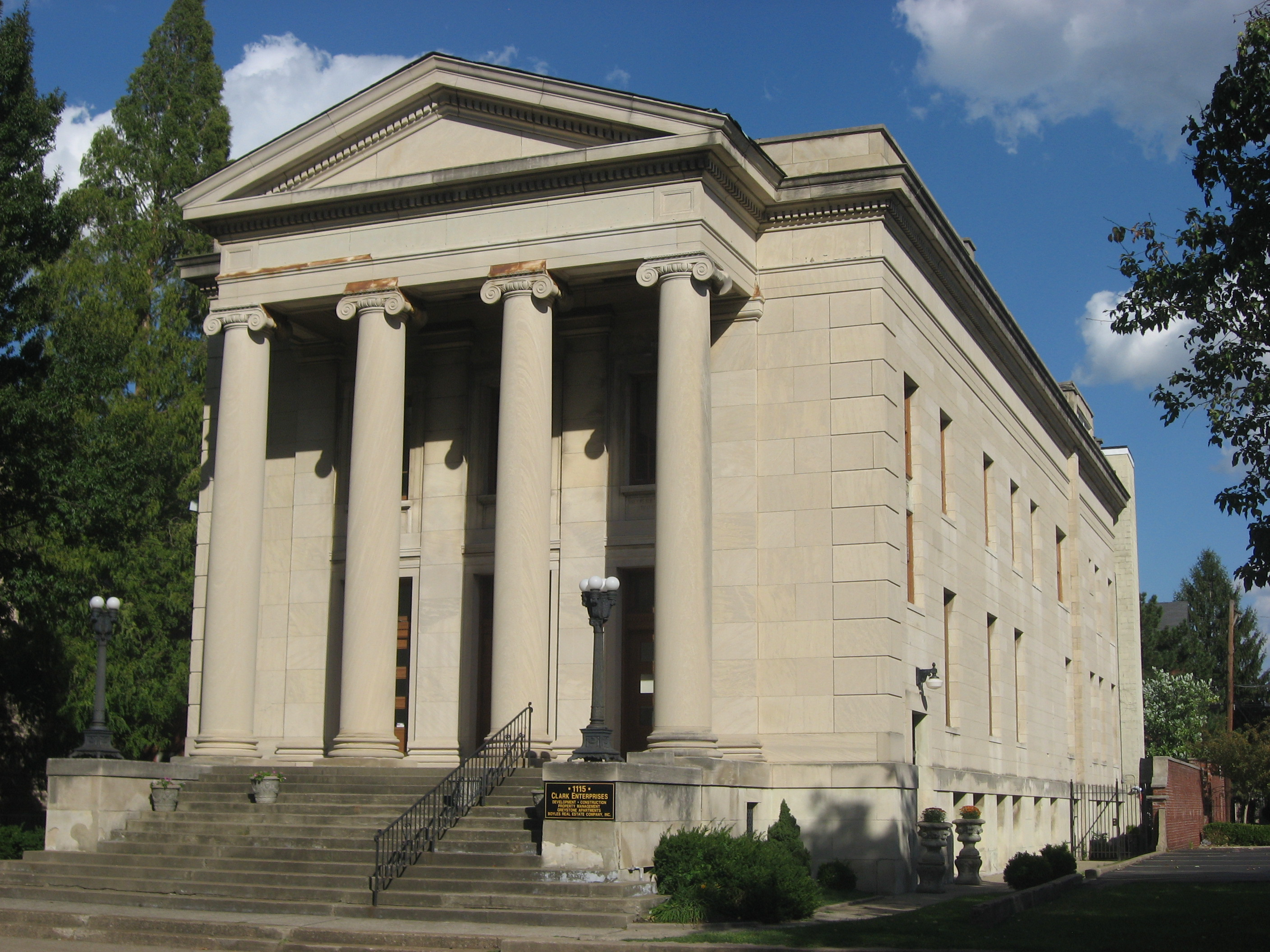 Southern side and front of the former Board of Extension of the Methodist Episcopal Church, South, located at 1115 S. Fourth Street in Louisville, Kentucky, United States. Built in 1917, it is listed on the National Register of Historic Places, and it is part of a Register-listed historic district, the Old Louisville Residential District.